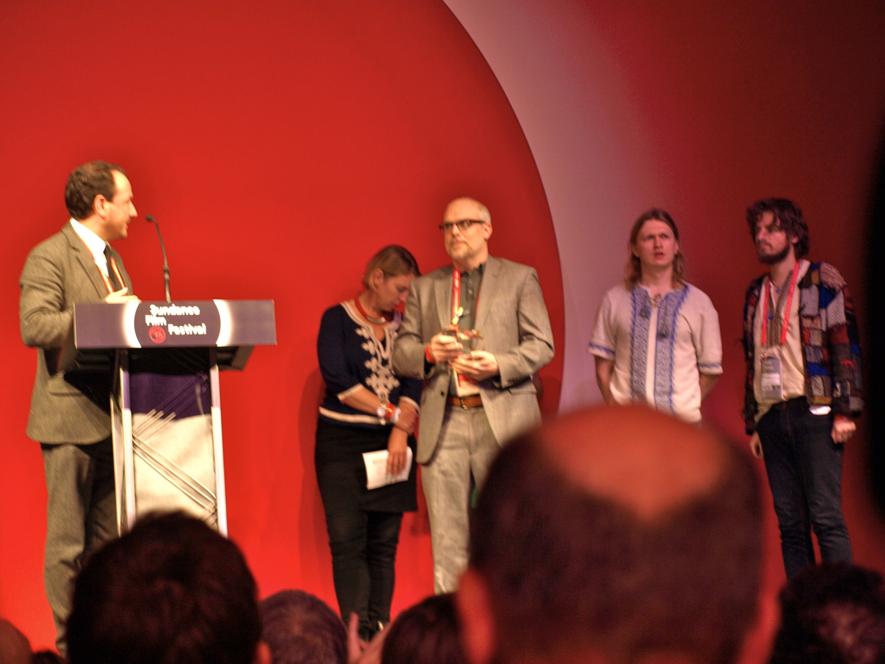 Russian Woodpecker Crew at Sundance 2015